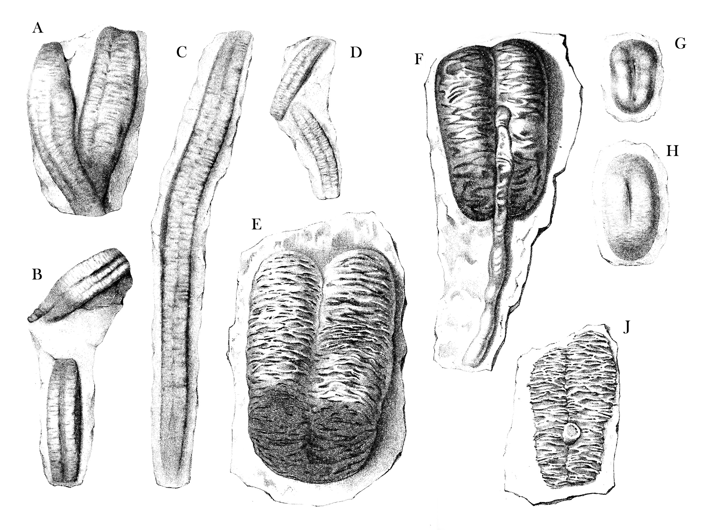 Historical drawings of representatives of the trace fossil genera Cruziana and Rusophycus (modified from original plates), then regarded as plant fossils and all referred to Rusophycus. A + B = “Rusophycus clavatus” (rather referrable to Cruziana), C + D = “Rusophycus subangulatus” (clearly referrable to Cruziana), E + F = Rusophycus bilobatus, G + H = Rusophycus pudicus, J = Rusophycus bilobatus.